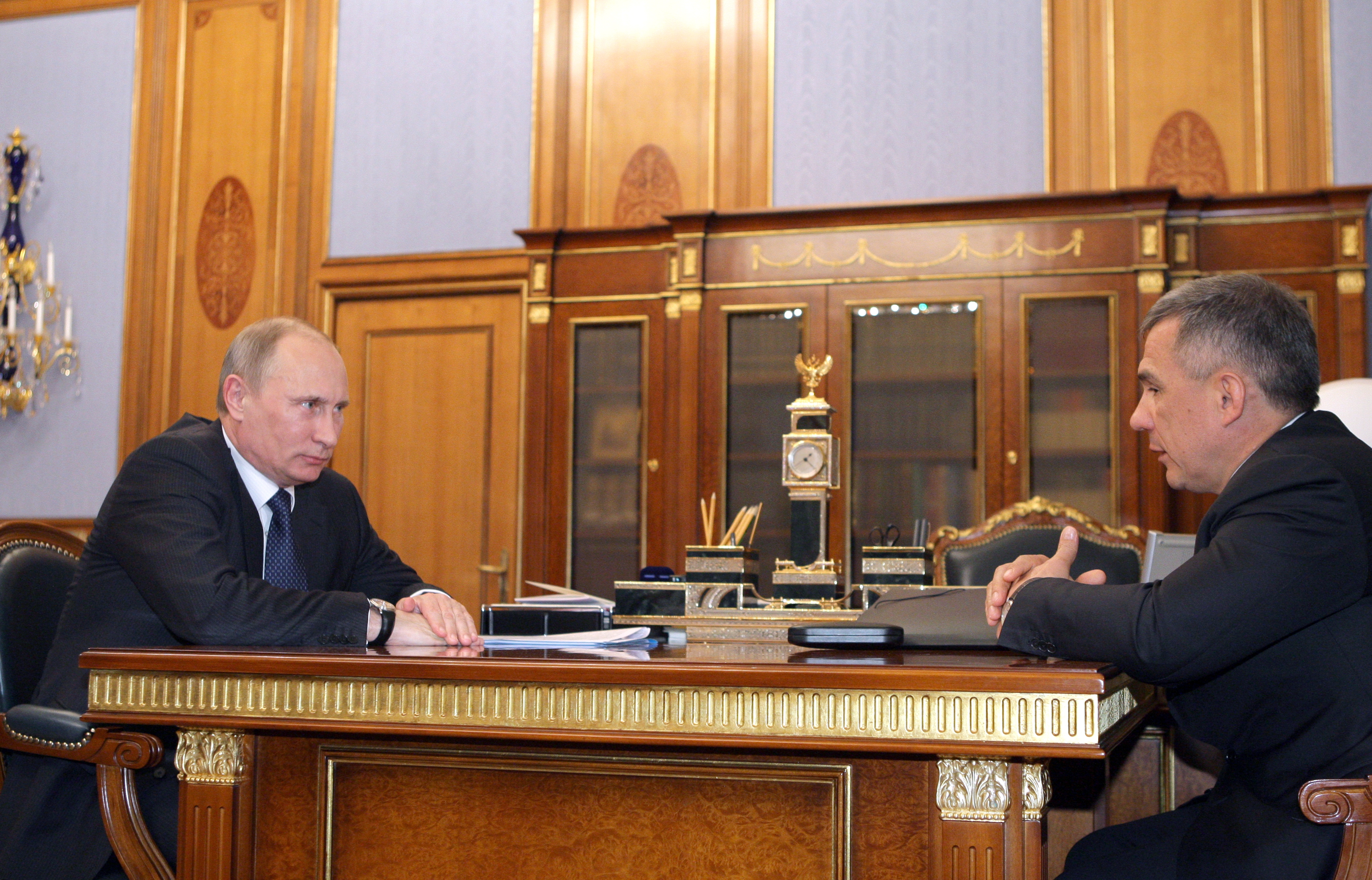 Prime Minister Vladimir Putin during a working meeting with head of Tatarstan Rustam Minnikhanov